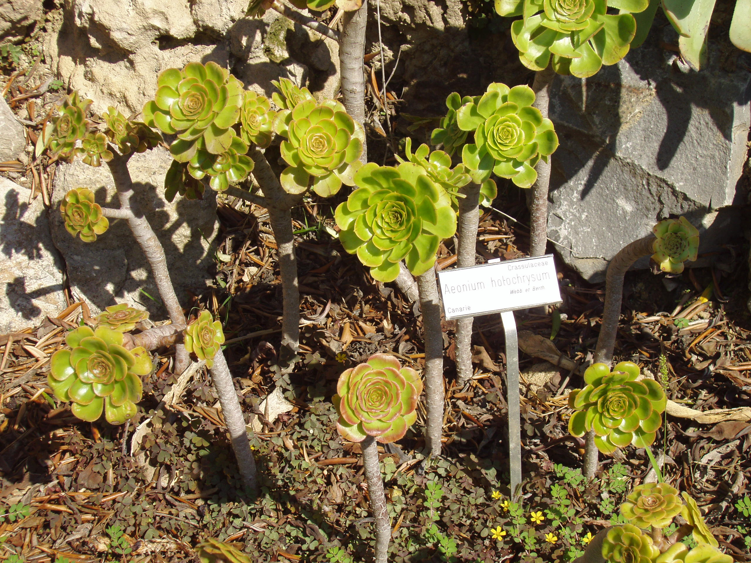 Aeonium holochrysum, growing in the Villa Hanbury botanical garden, Ventimiglia, Italy.